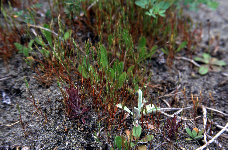 Aira praecox at Humboldt Bay National Wildlife Refuge Complex, California, USA